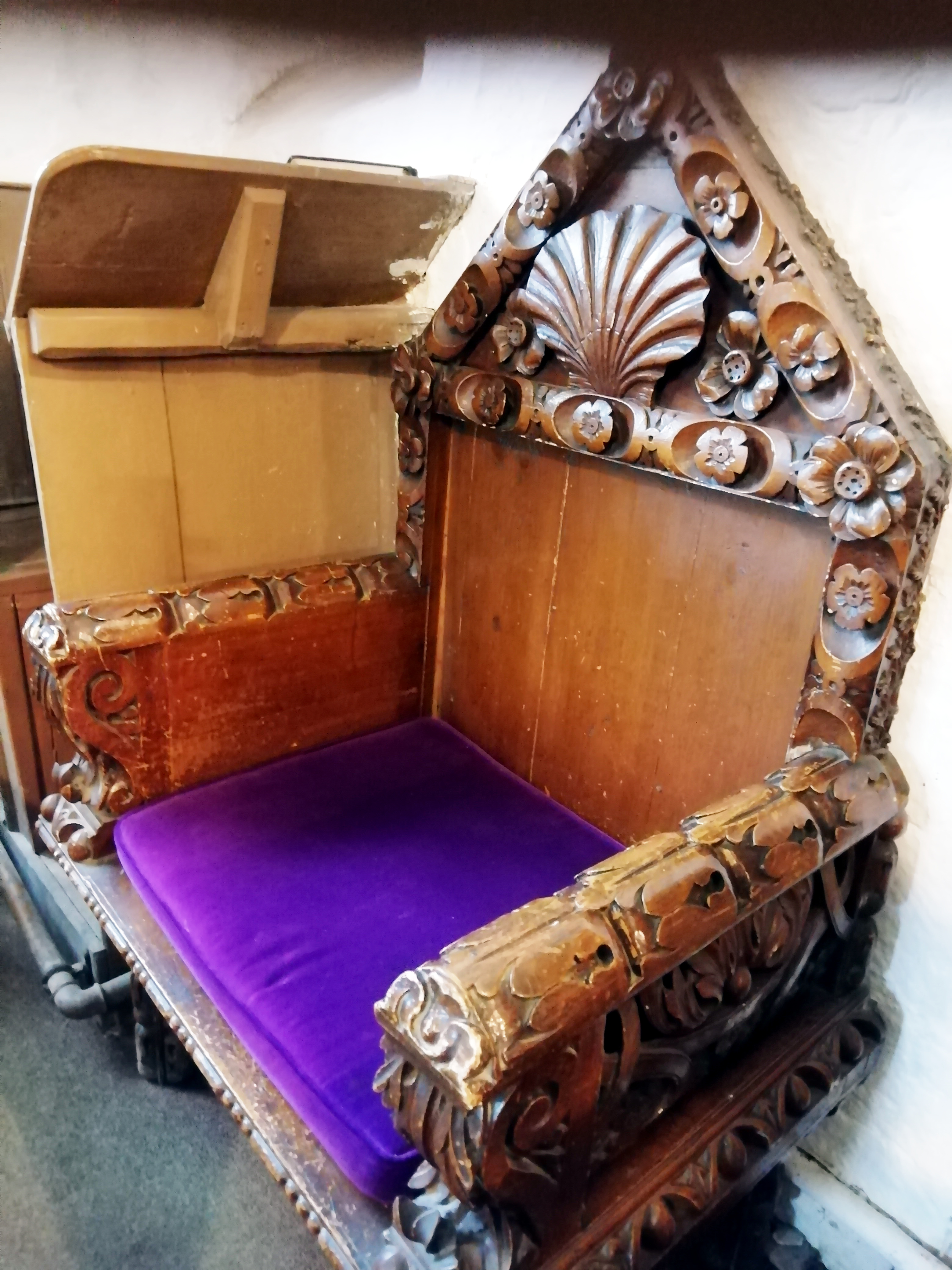 Bishop's throne, All Saints' Church, Dale Abbey, Derbyshire. As the Premonstratensian abbey had not been subject to the local bishop, the church became a peculiar jurisdiction after the dissolution and the lord of the manor, as its chief officer, was recognised as the lay bishop of Dale Abbey.